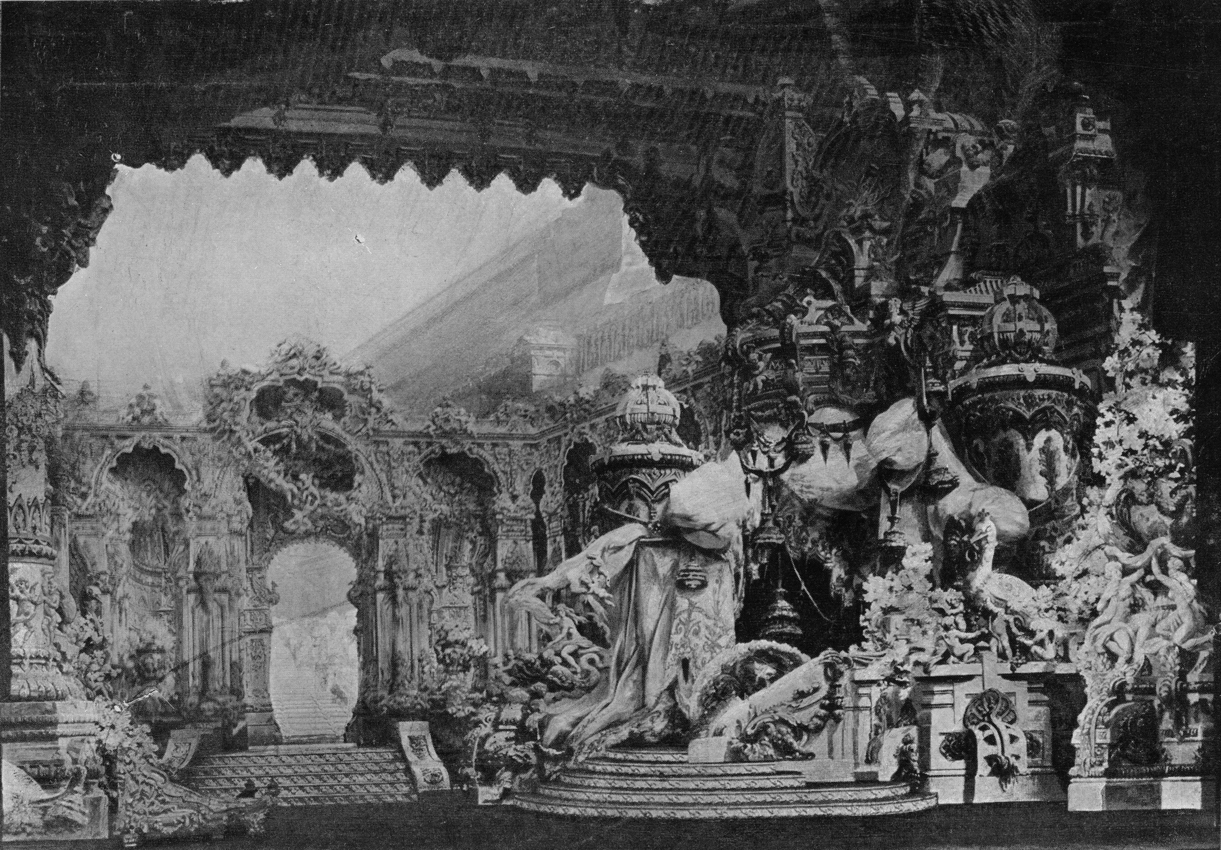 Gluck - Armide - Décor du 5e Acte - Paris, Théâtre de l'Opéra Garnier, 12-04-1905